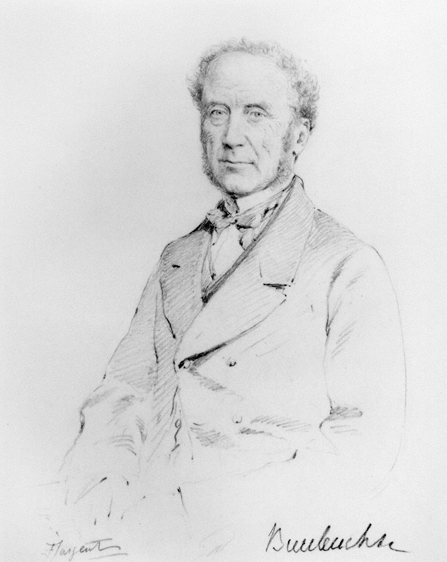 Portrait of William Montagu-Douglas-Scott, 6th Duke of Buccleuch